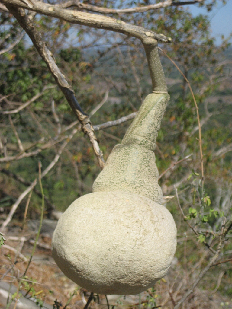 Cladostemon kirkii fruit, Macossa District of Mozambique